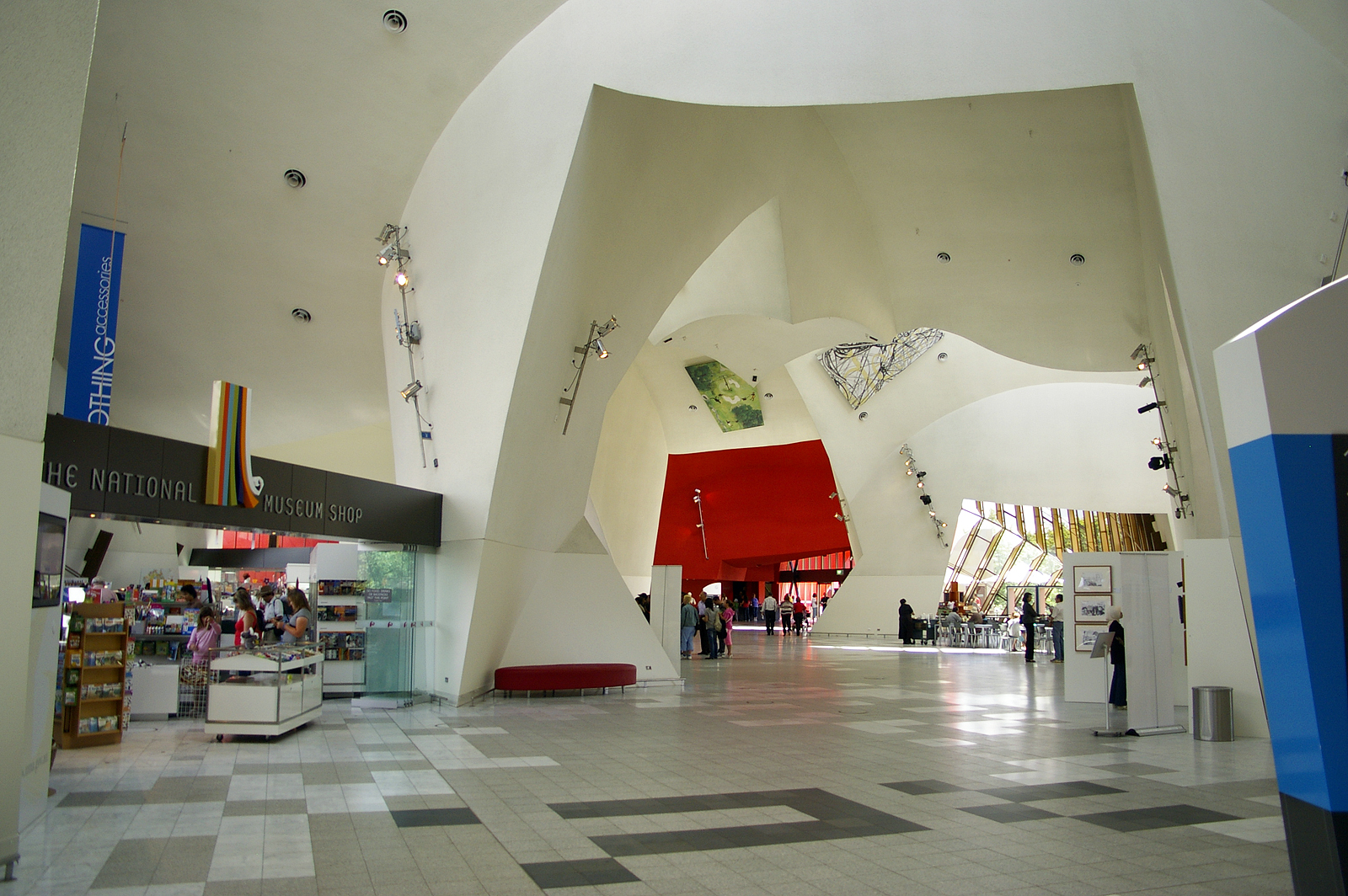 Interior of the National Museum of Australia in Canberra, Australian Capital Territory.